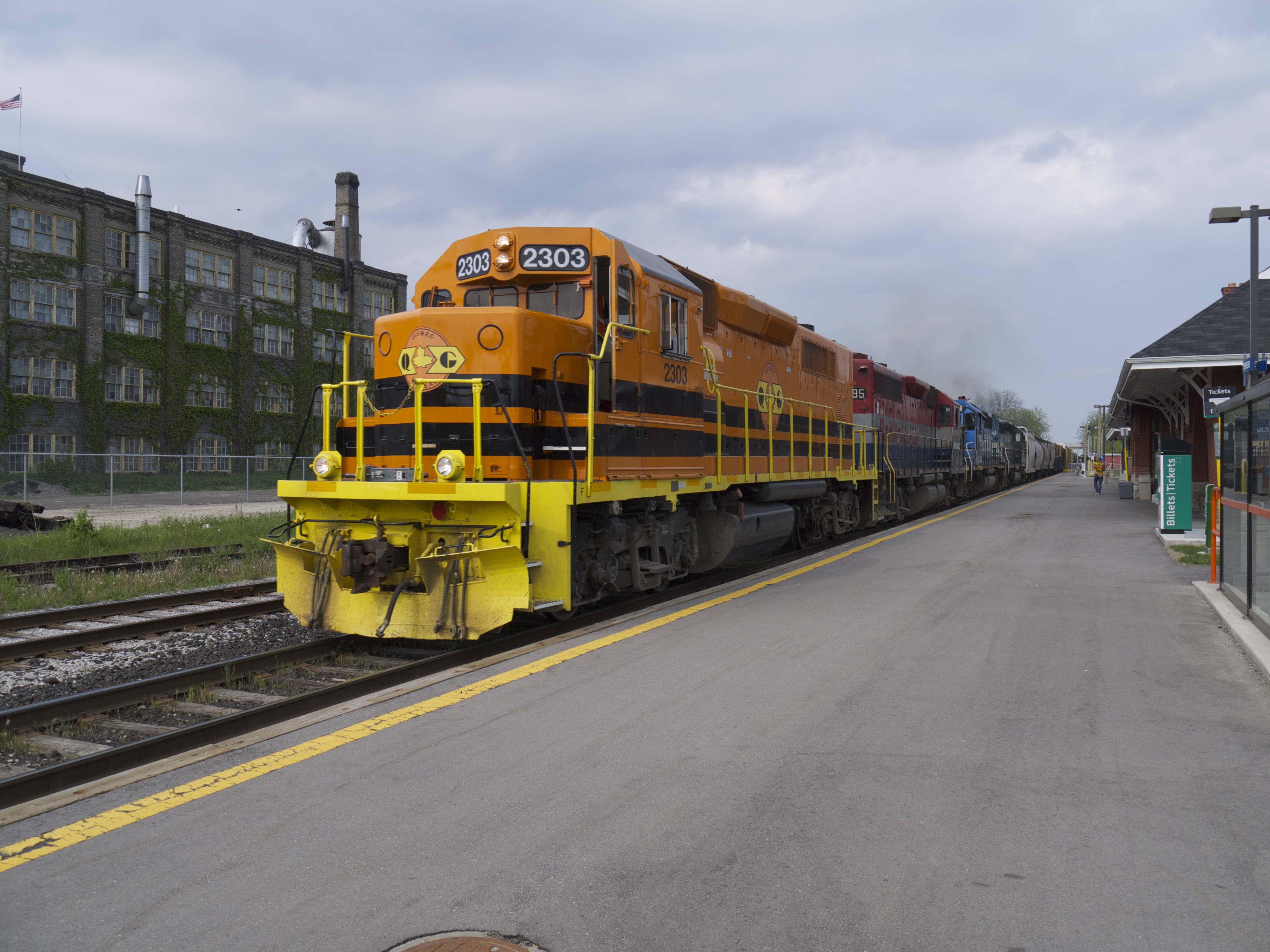 Quebec Gatineau Railway locomotive number 2303 passing through Kitchener GO station.